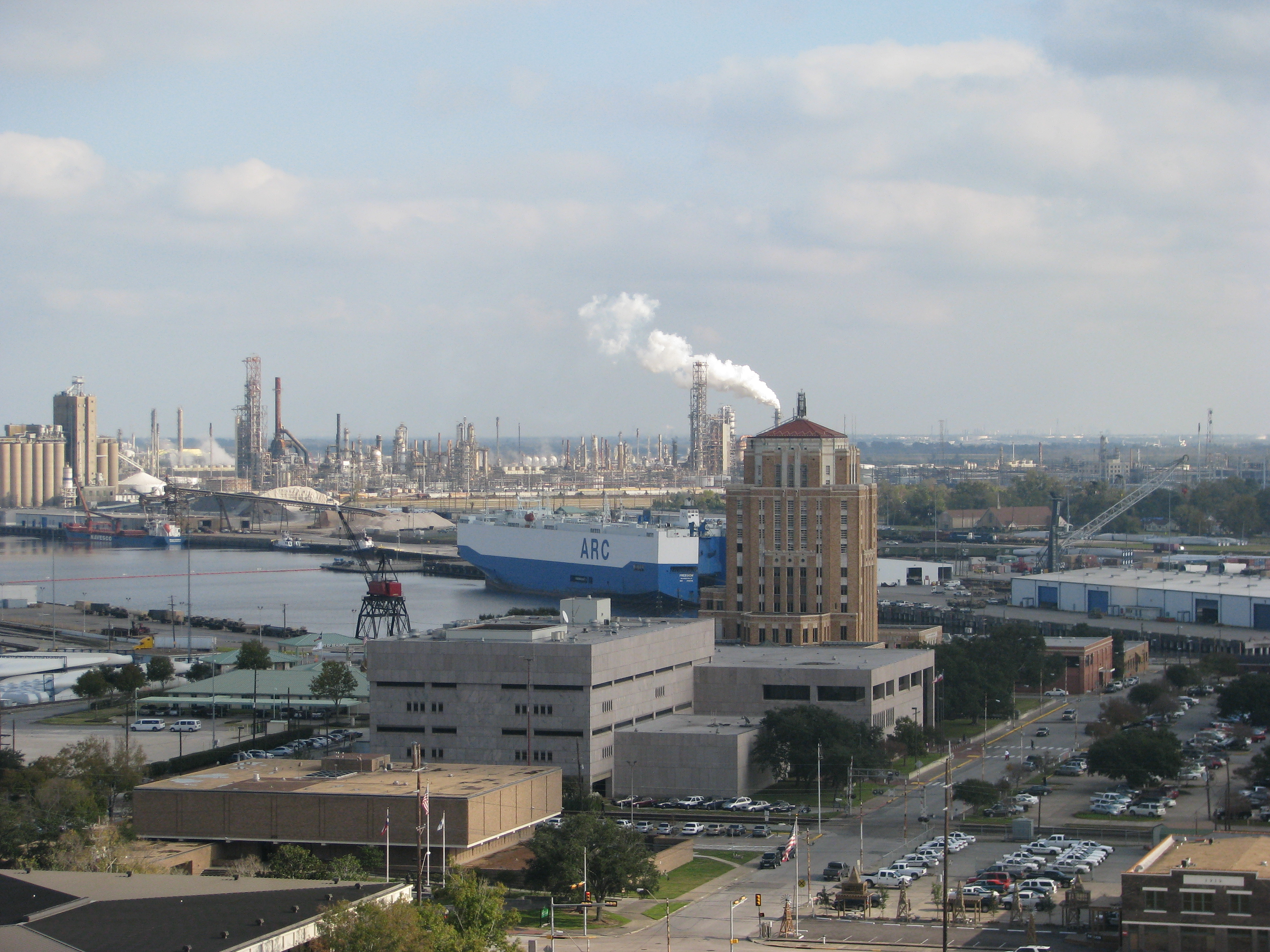 Looking toward the Port of Beaumont, refineries and the courthouse.